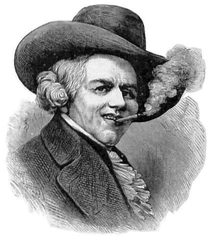 The "Smoker Man" used by Allen & Ginter Co. in their cigarettes.